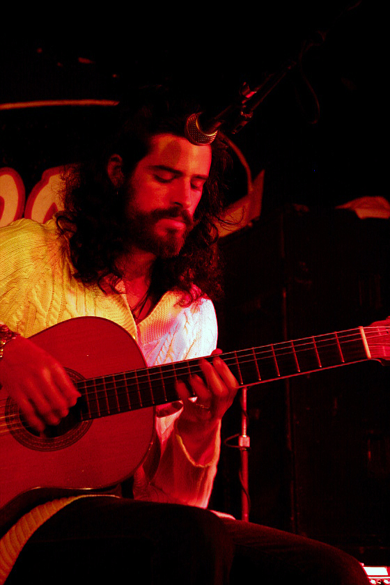 Devendra Banhart in 2005